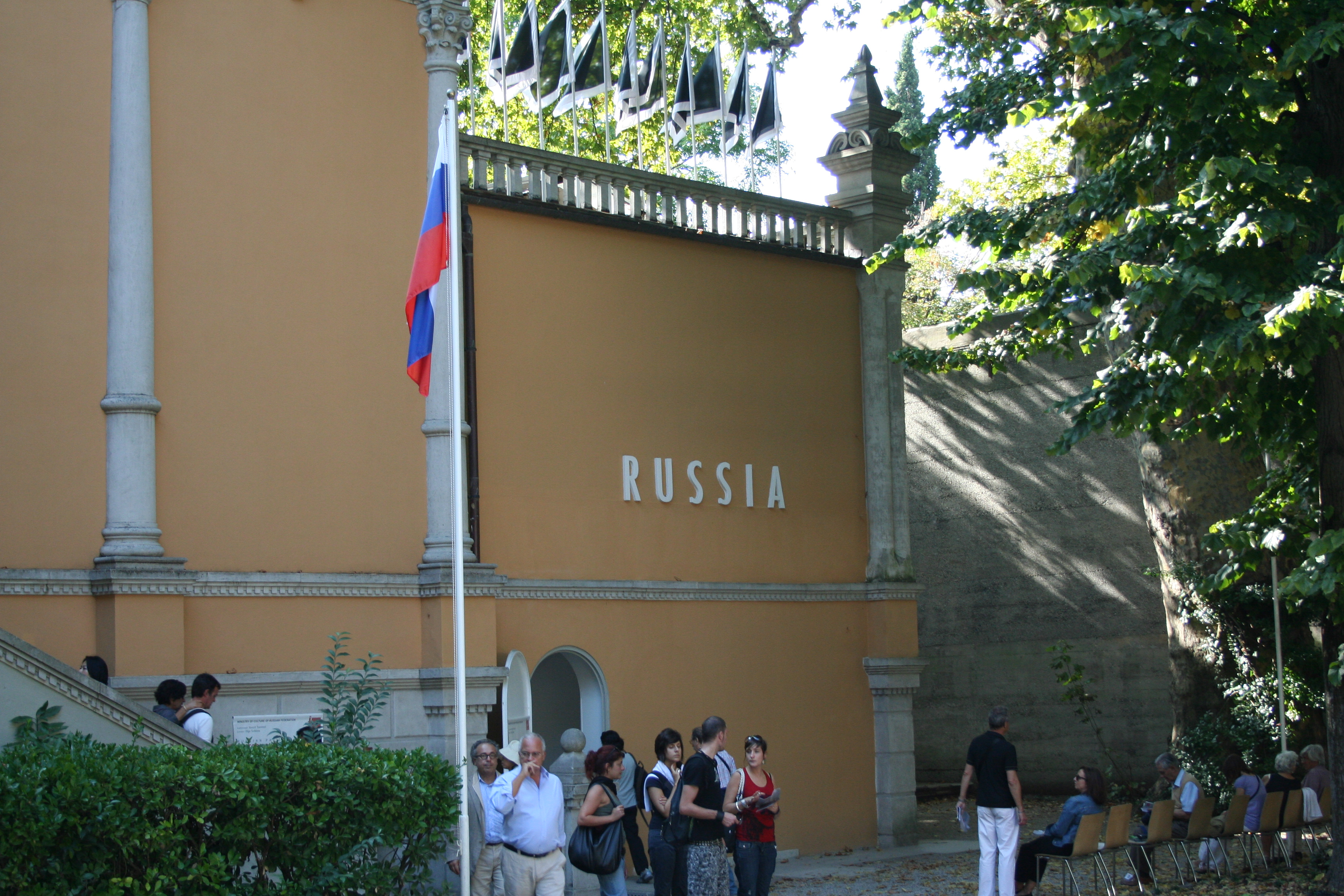 The Russian Pavilion in the Venice Biennial Gardens, 2009. It was officially opened on 29.04.1914., in the presence of the Great Duchess Maria Pavlovna of Russia (1890-1958) - the initiator of the project. It is built in Venetian-Byzantine style. Architect: Alexey Viktorovich Shchusev